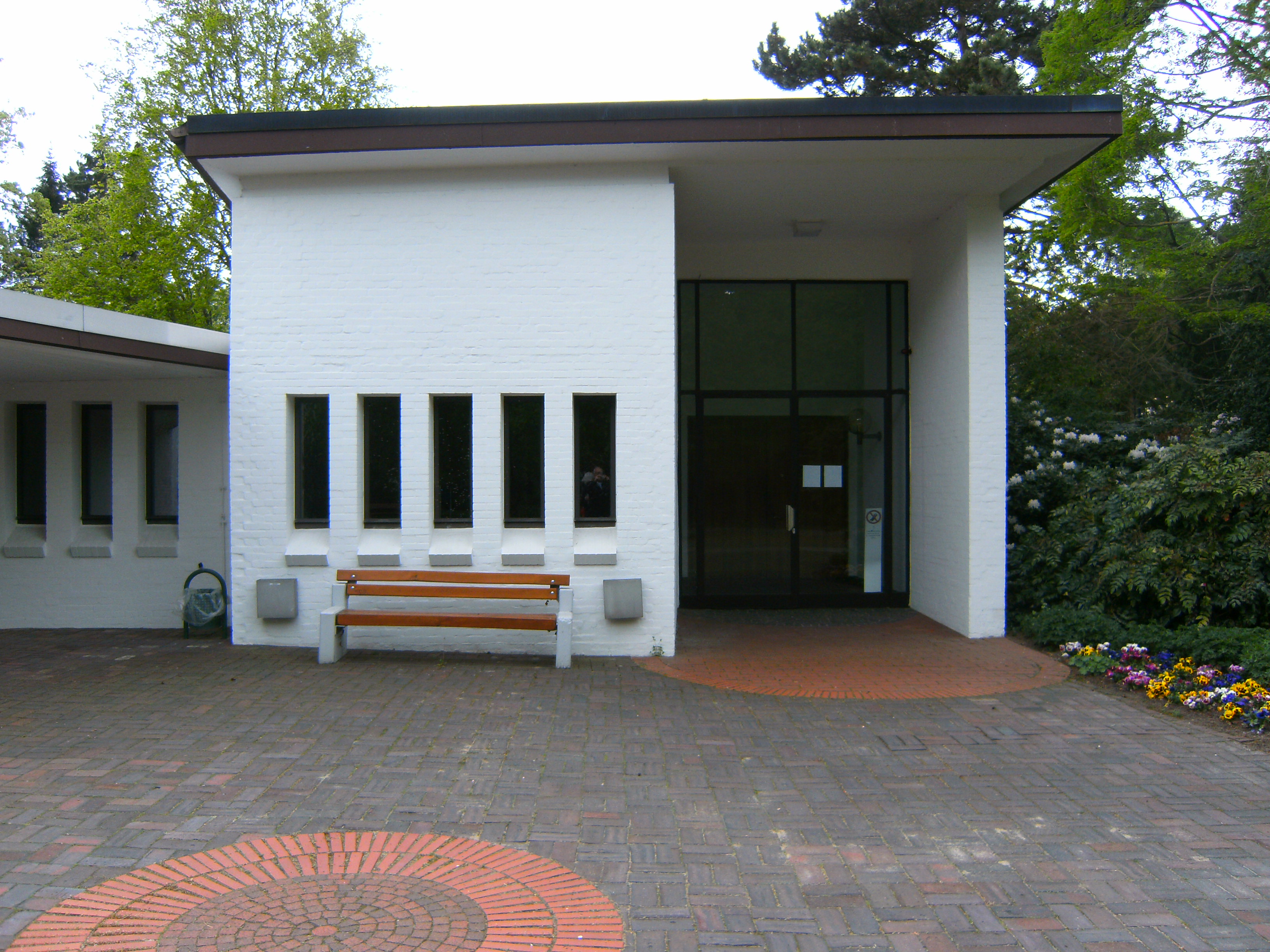 Hamburg-Wilhelmsburg, Germany, Friedhof Finkenriek (cemetery): Southern part. Chapel.